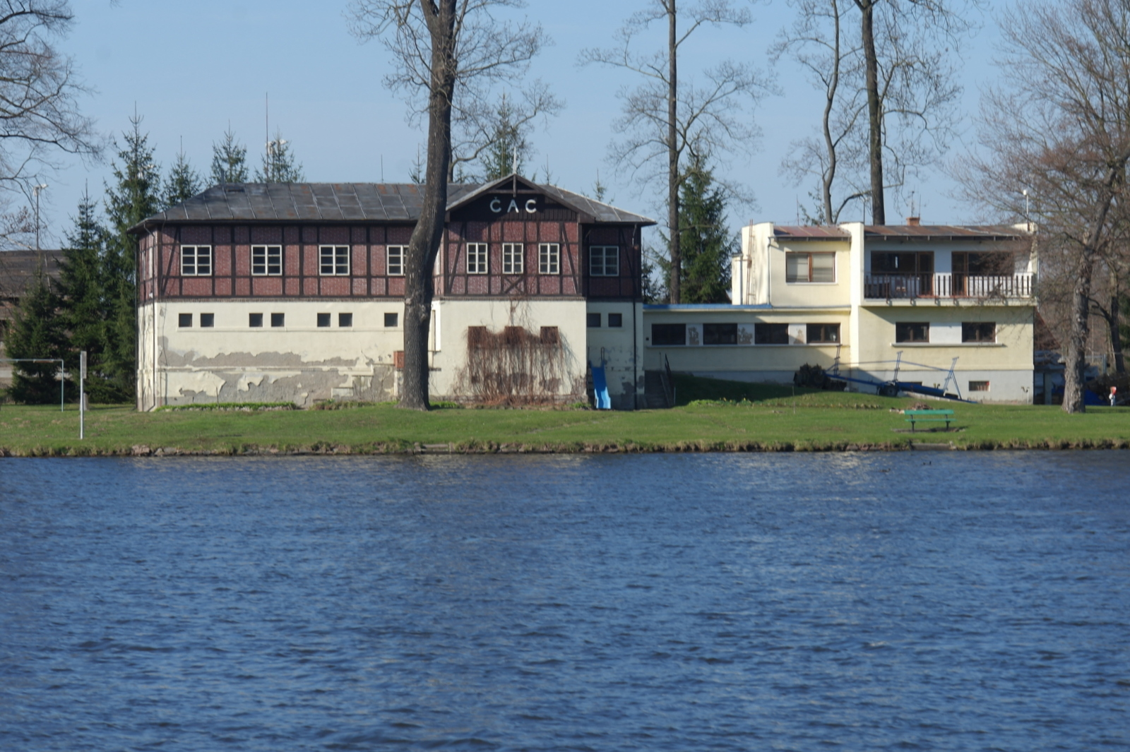 Shipyard, 118 Vědomice, Vědomice, Litoměřice District, Ústí nad Labem Region. The ČAC rowing club building from 1923 with preserved original equipment lockers and the remains of the technical facilities for the export of ships from warehouses. A view across the Elbe from Roudnice nad Labem.